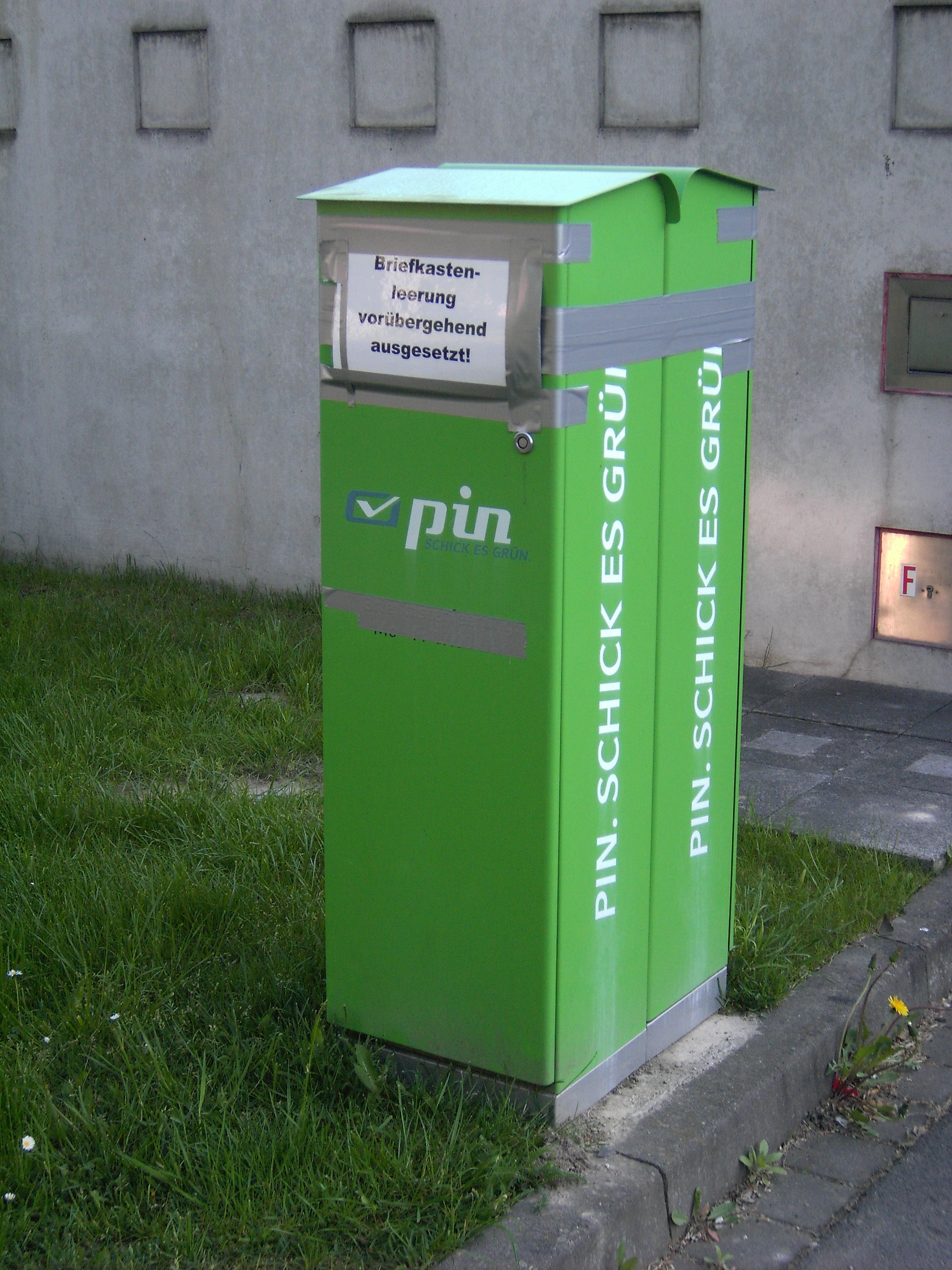 A mailbox of the Pin Group in Fulda. May 2008.